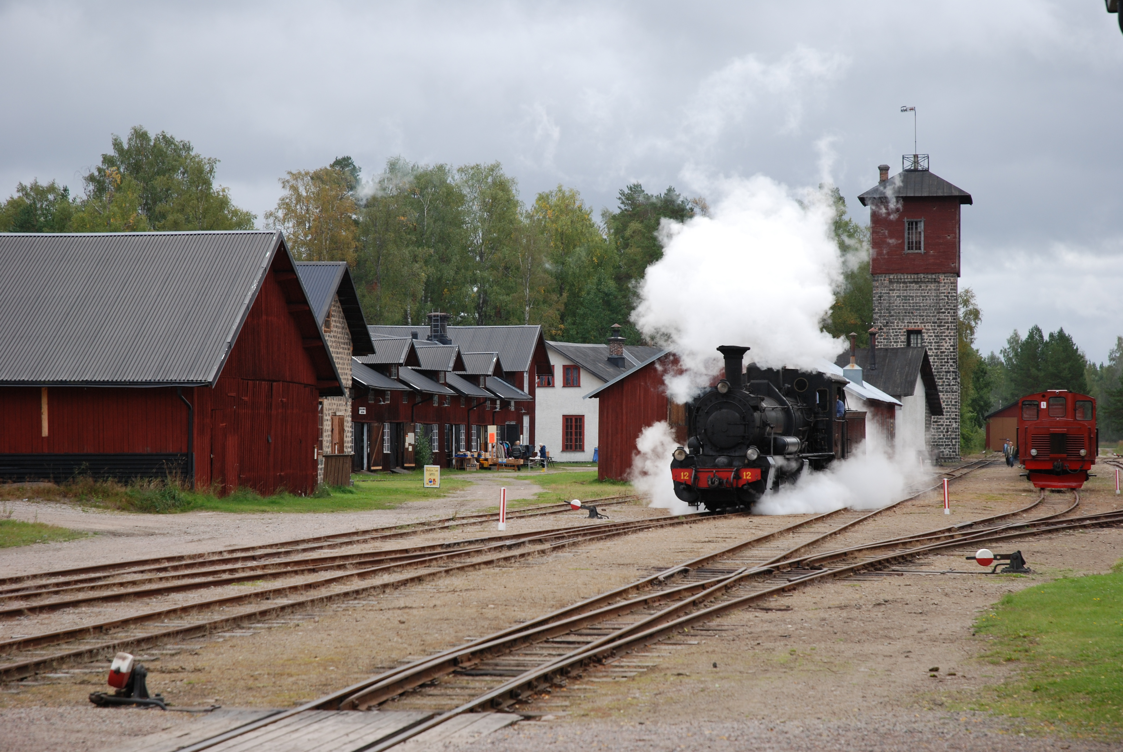 Locomotive DONJ No 12, a Mallet locomotive, at Jädraås in Sweden